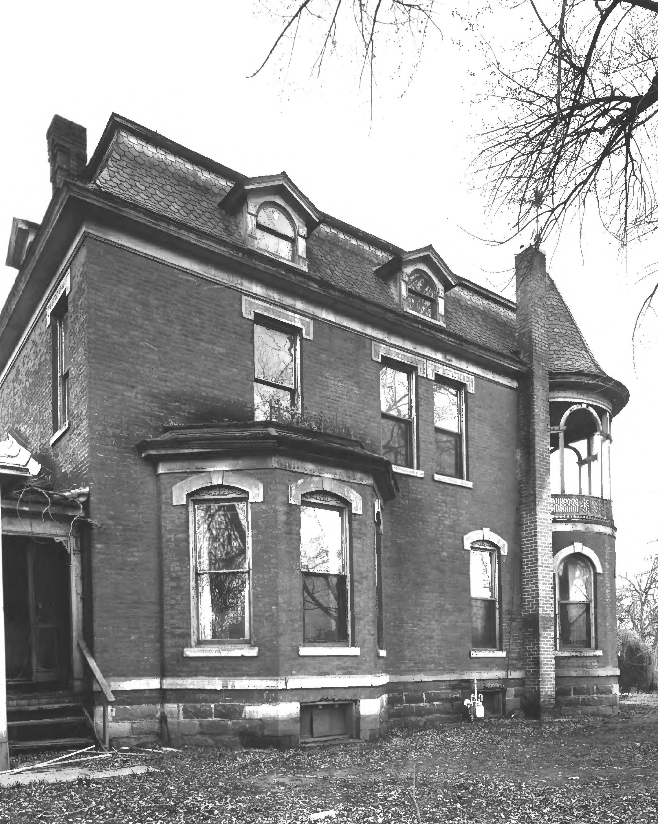 The historic Grant Whitney House (built 1890), formerly located at 1015 7th Avenue North in Payette, Idaho, United States, is listed on the US National Register of Historic Places. The house was demolished at some point prior to the upload date.